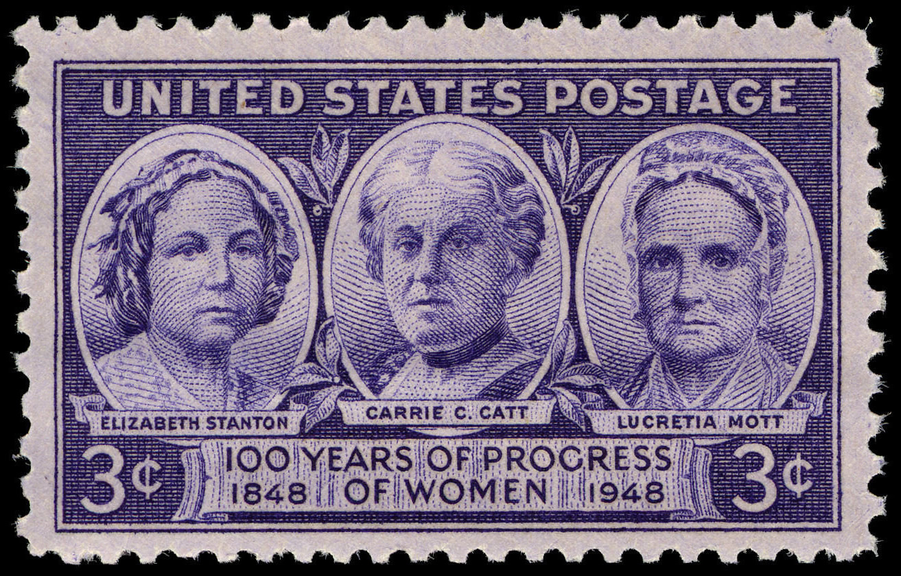 100 Years Of Progress Of Women - 1848-1948 - 3-cent 1948 issue U.S. stamp. From left to right: Elizabeth Cady Stanton (1815-1902), Carrie C. Catt (1859-1947), Lucretia Mott (1793-1880).